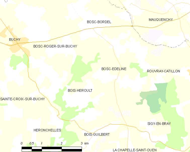 Map of French municipality Bois-Héroult